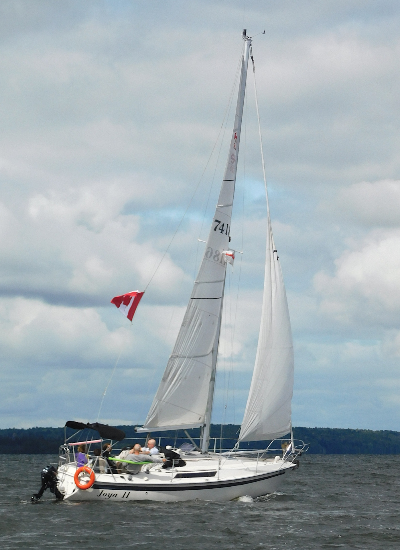 An Edel 820 sailboat named Joya II.